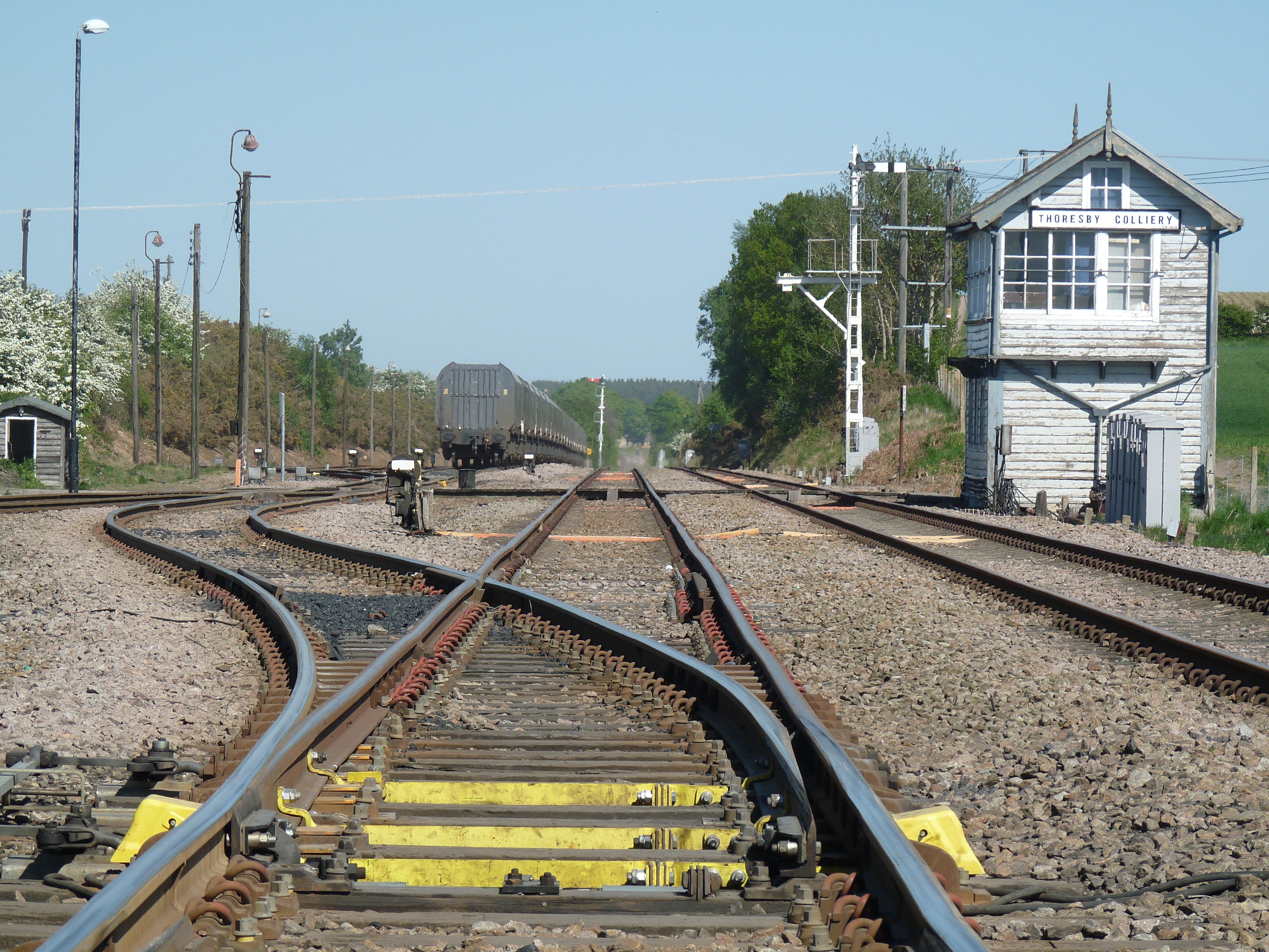 Thoresby Colliery Junction Signal Box, looking east. The run-around loop for the Thoresby Colliery Branch is on the lefthand (north) side, with the High Marnham Test Track leading straight on ahead into the distance. The signal post ahead in the centre of the picture states "START OF STAFF SECTION", while the rear-facing signal of the right close to the signal box states "END OF STAFF SECTION RETURN STAFF TO SIGNAL BOX". The signal box is labelled "THORESBY COLLIERY". The wagons in the loop say "GBRf" in large letters on the side. The route from Thoresby to High Marnham is now used by test trains that will be trialling new technology and for testing purposes, this includes ballast cleaning, track laying, new welding technology and testing new rail mounted plant equipment.